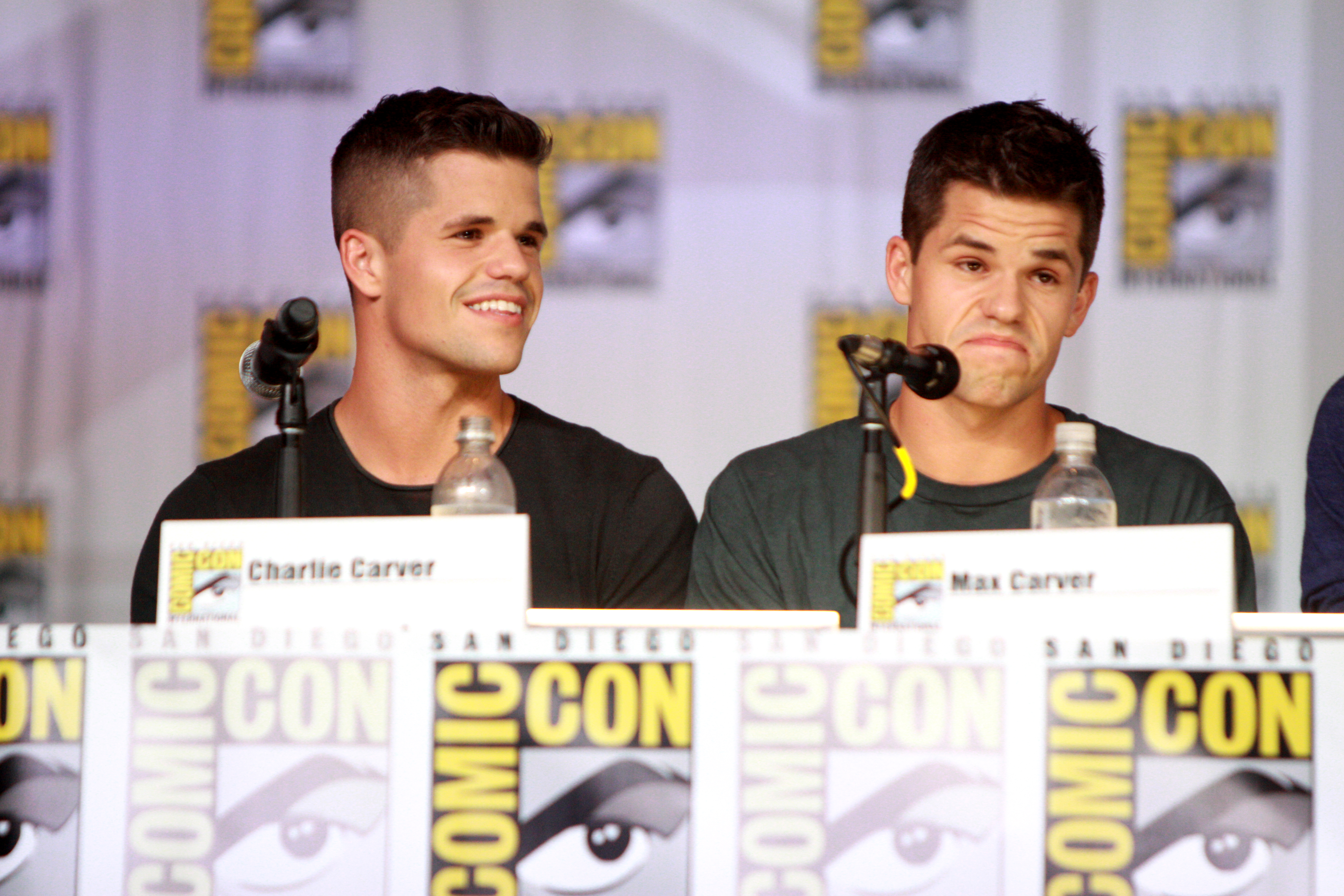 Charlie Carver and Max Carver speaking at the 2013 San Diego Comic Con International, for "Teen Wolf", at the San Diego Convention Center in San Diego, California.